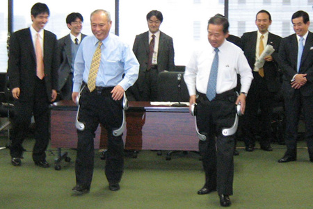 Yōichi Masuzoe, Minister of Health, Labour and Welfare, and Toshihiro Nikai, Minister of Economy, Trade and Industry, demonstrated the robot at the Central Government Building No.5 in Chiyoda Ward, Tōkyō Metropolis on November 10, 2008. (For terms of use, see 利用規約｜厚生労働省.)